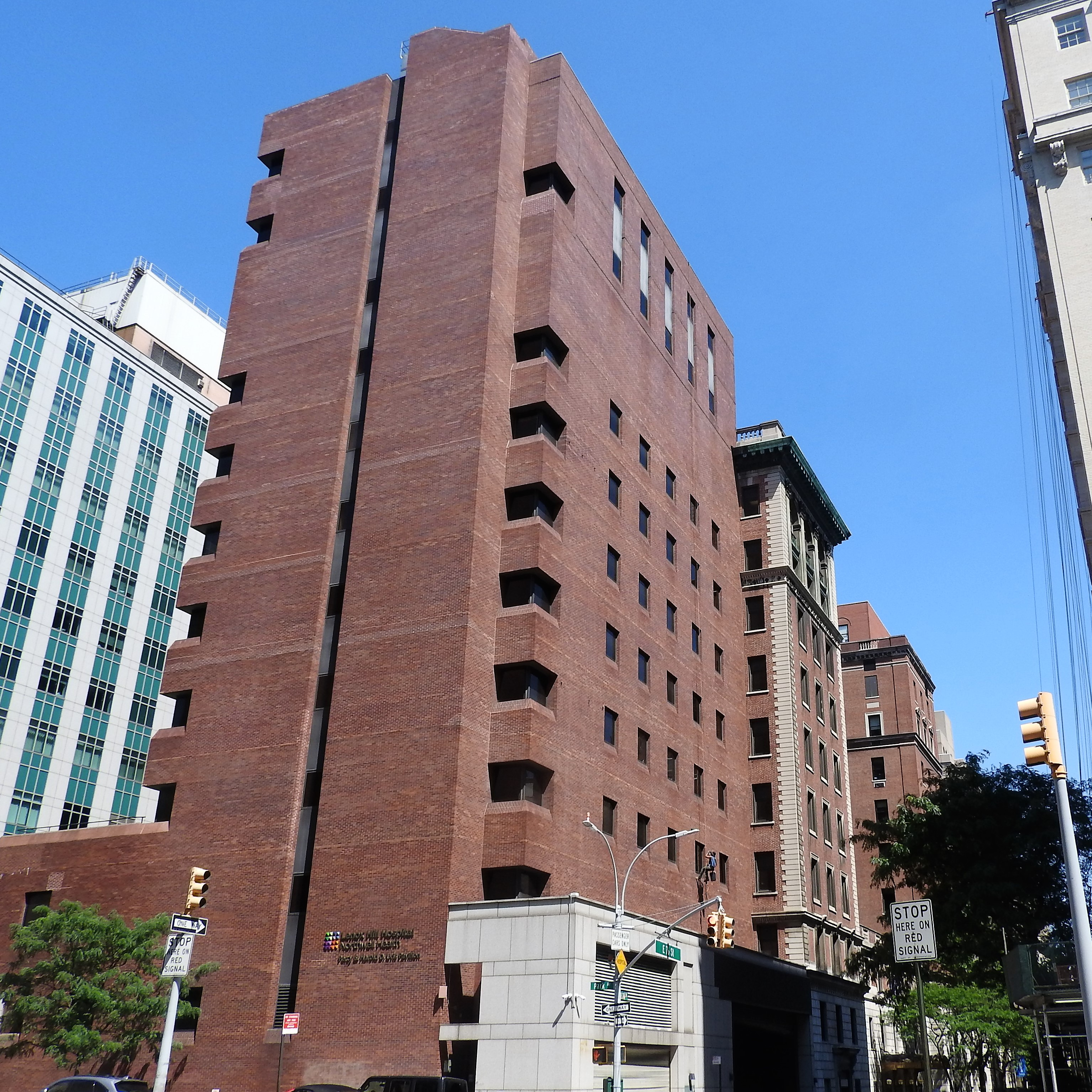 Looking east across Park Avenue on a sunny afternoon